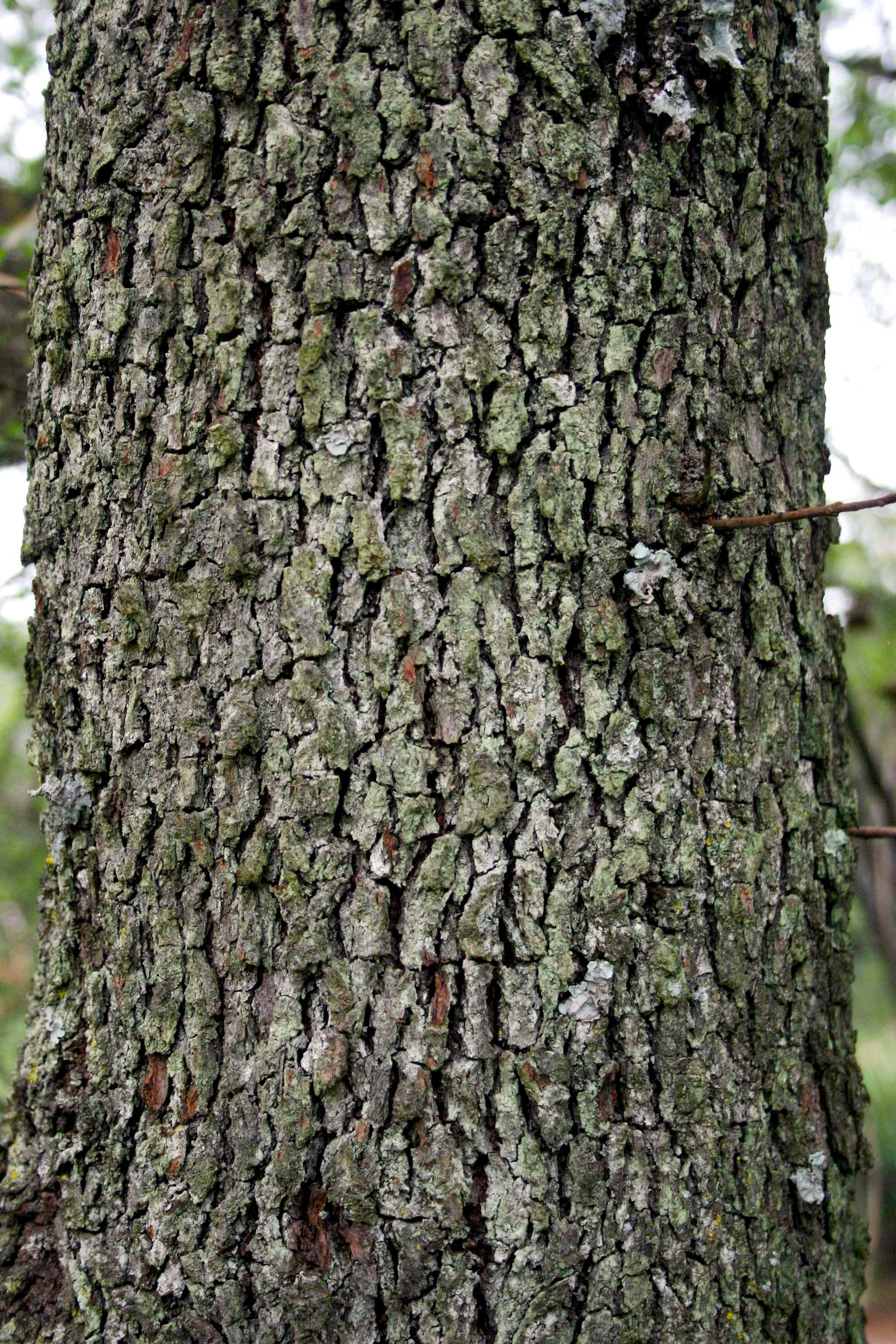 Bark of Rhus lancea - Honeydew, Johannesburg